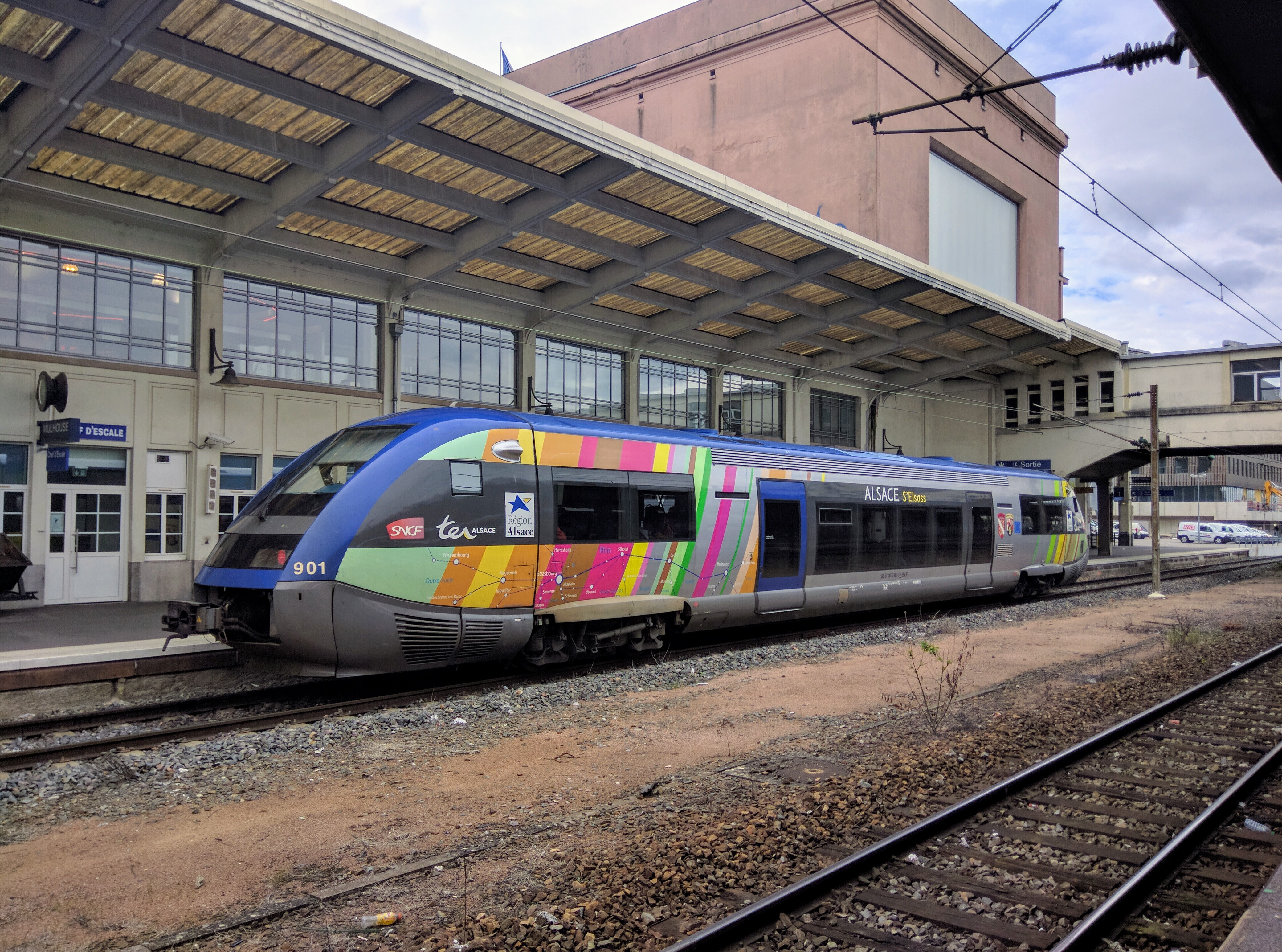 2017-05-02 Mulhouse Ville X73901